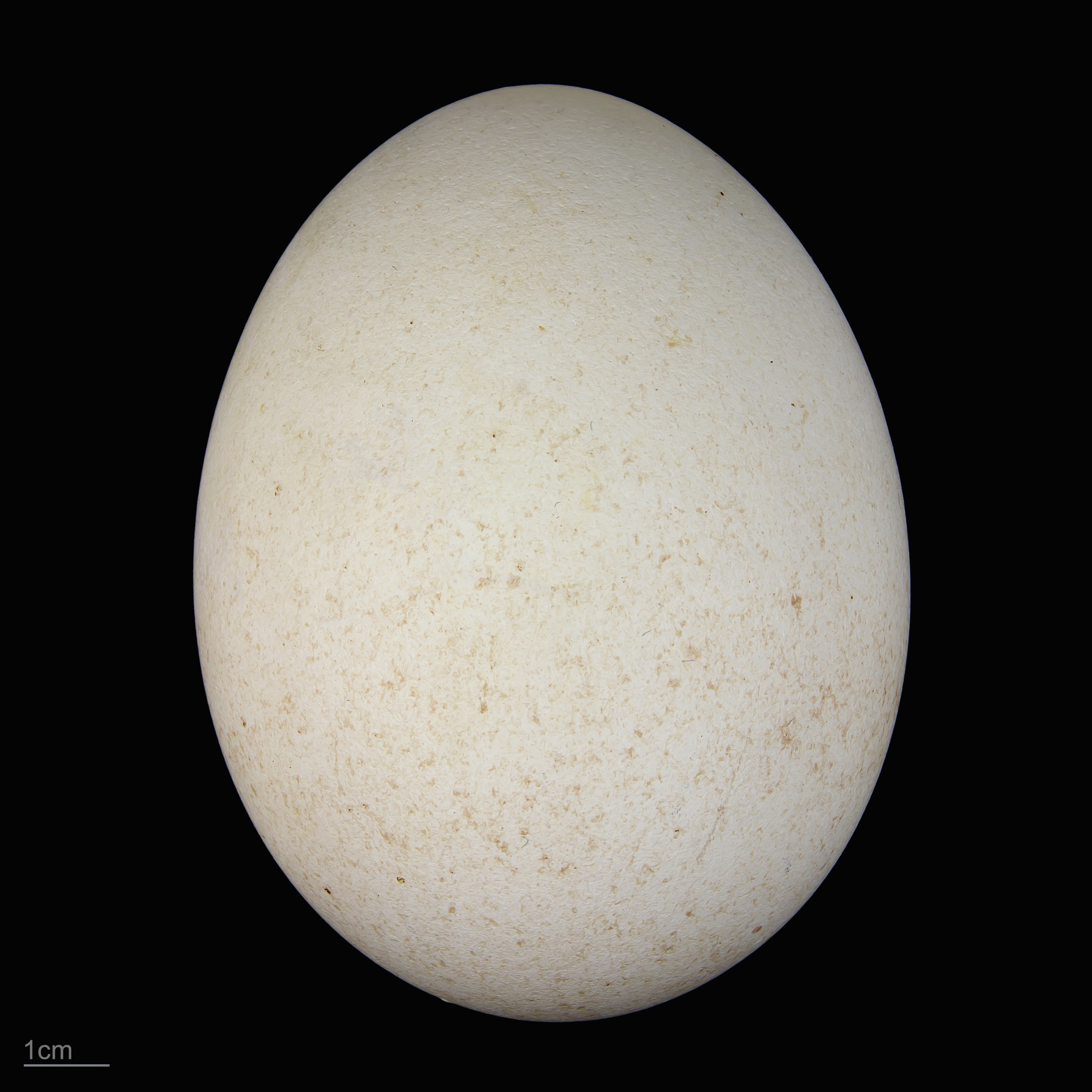 Eggs of griffon vulture collection of Jacques Perrin de Brichambaut.